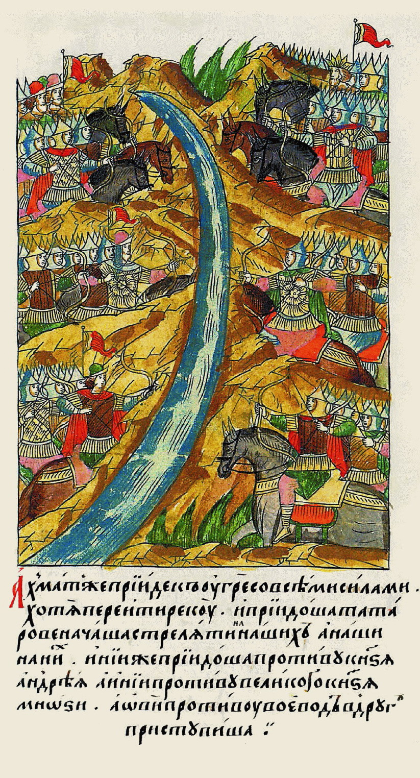 Standing on the Ugra river. 1480. Miniature in Russian chronicle "Licevoy svod". XVI century.